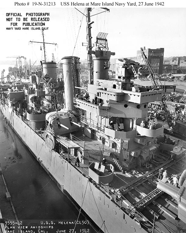 View of the starboard side amidships of the U.S. Navy light cruiser USS Helena (CL-50), taken at the Mare Island Naval Shipyard, California (USA), 27 June 1942, following repair of combat damage and an overhaul. Note the ship's redesigned forward superstructure, including an open bridge and reduced lower bridge wings. The Mark 34 main battery gun director, with antenna for an FC gunfire control radar, is immediately in front of the foremast. The other director, just behind the open bridge, is a Mark 33, with antenna for an FD radar mounted on its front. The weight traversing gear on the main deck, between the forward superstructure and 6/47 gun turret # 3, indicates that Helena is undergoing an inclining experiment to determine her stability.